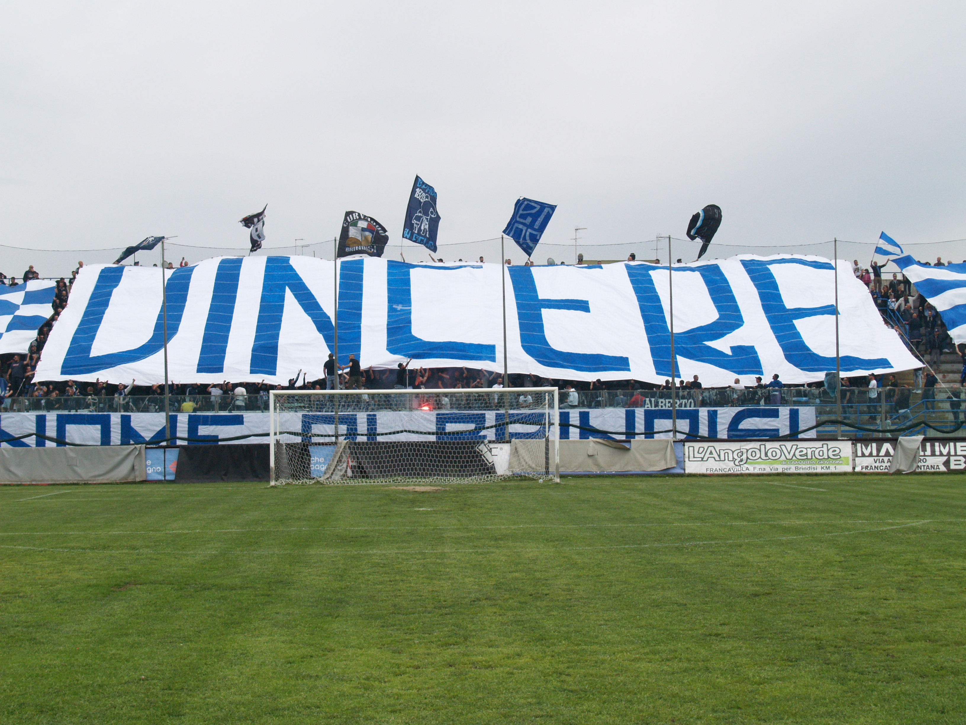 Choreography of S.S.D. Brindisi F.C.'s ultras during the 2018–19 Eccellenza Apulia playoffs.